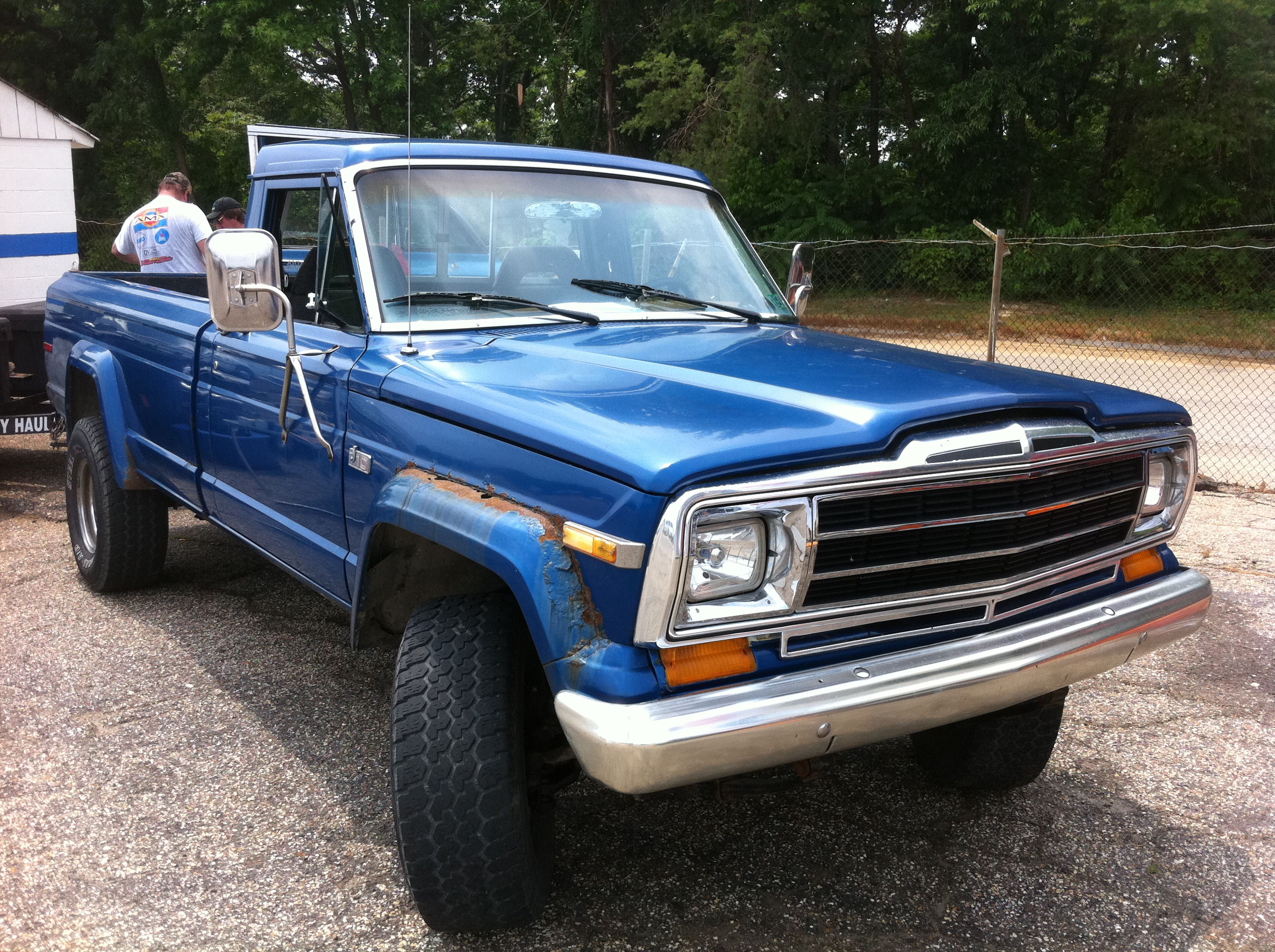 Jeep J-10 pickup truck - front view - Picture taken at the vendor area as part of an AMC & Mopar car show in Maryland.